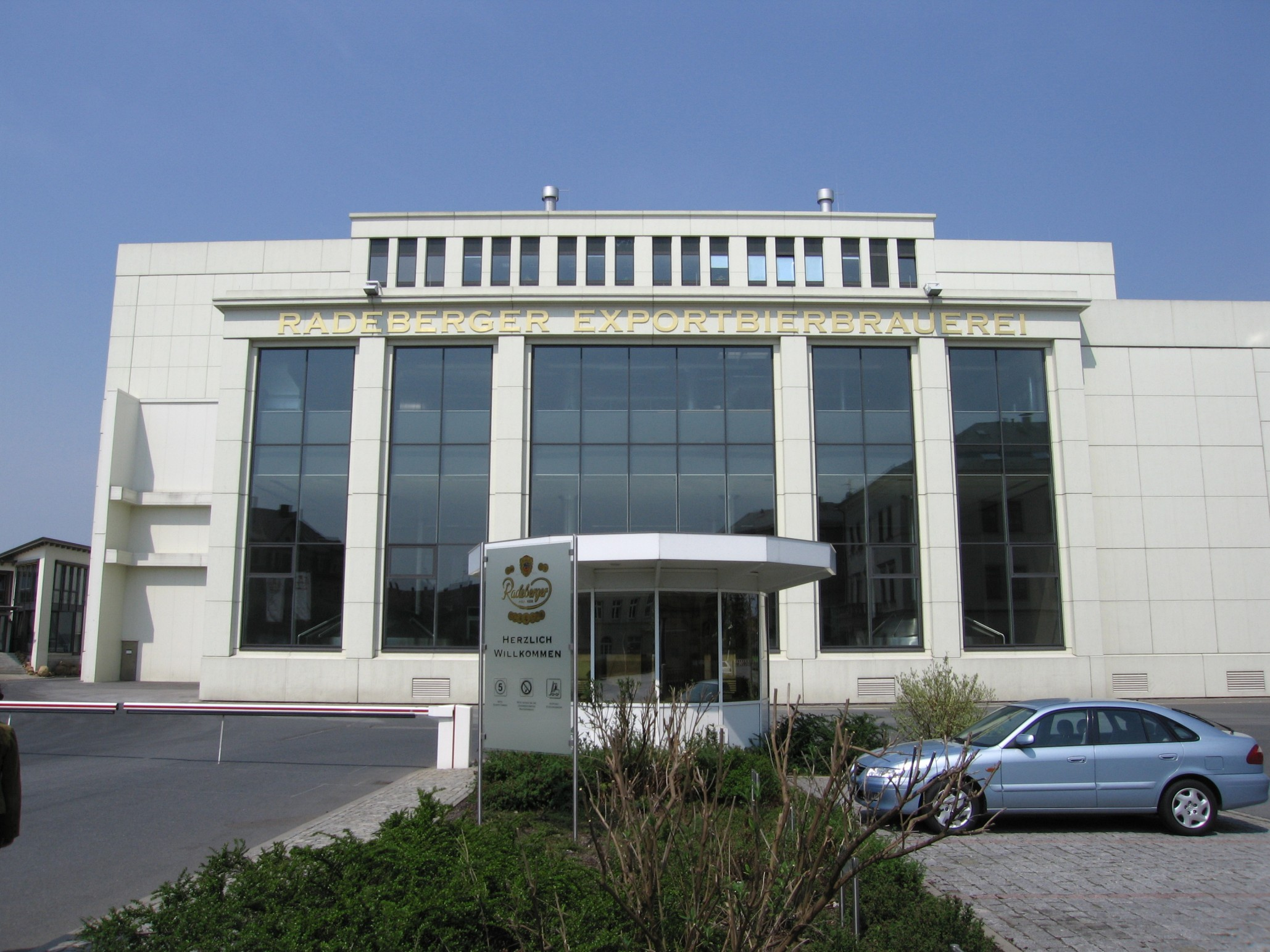 Radeberger Brewery - production hall, Radeberg, Germany